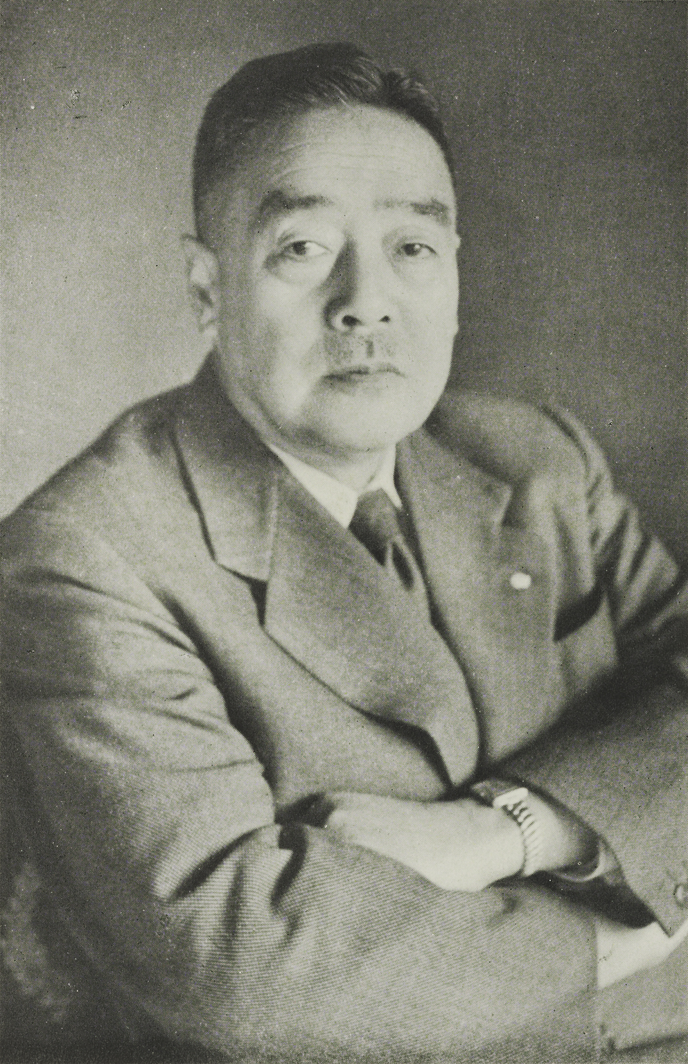 Portrait of Ogata Taketora (緒方竹虎, 1888 – 1956)